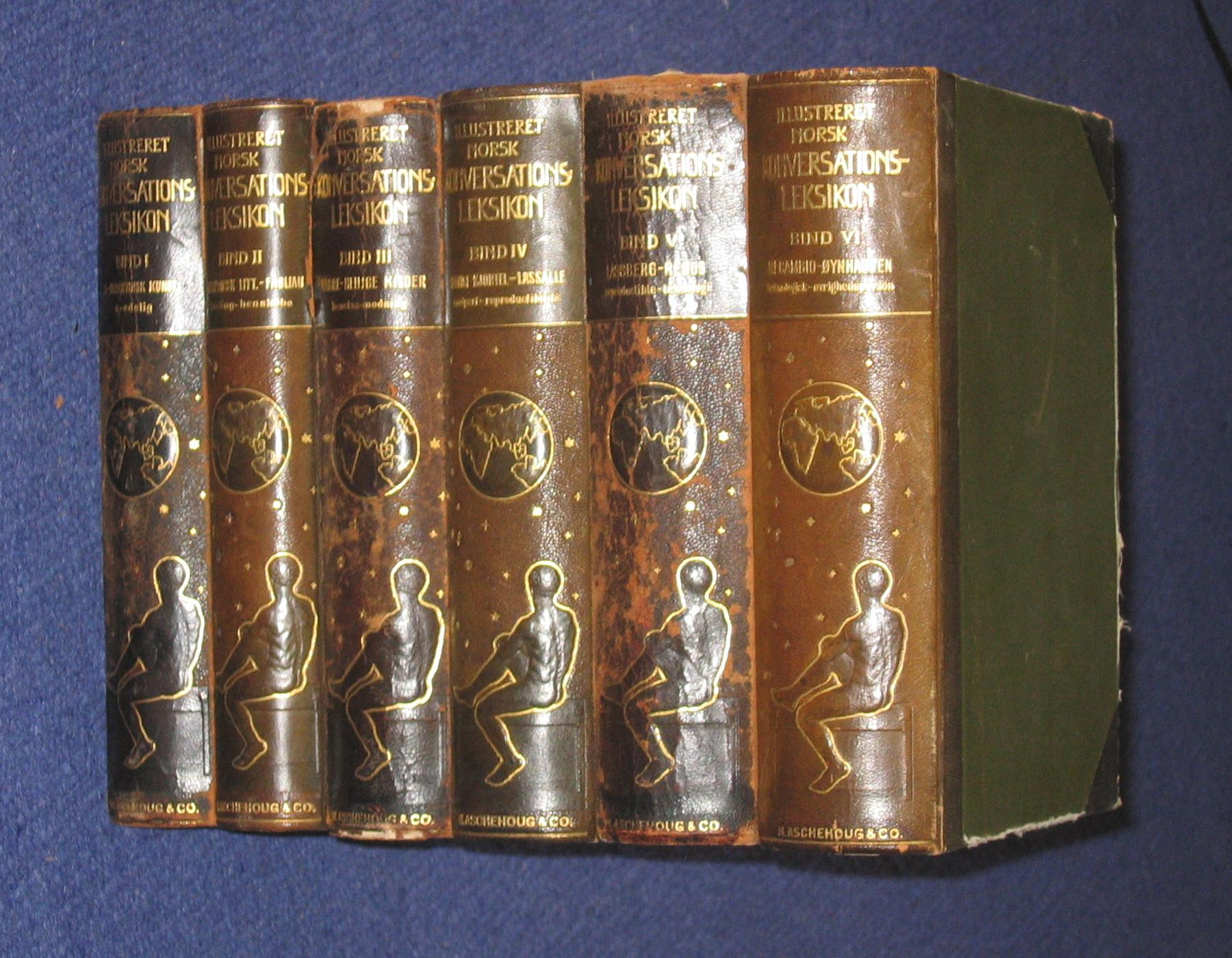 Book covers of Illustreret norsk konversationsleksikon (illustrated Norwegian encyclopedia), 6 volumes, 1907-1913, edited by Haakon Nyhuus.